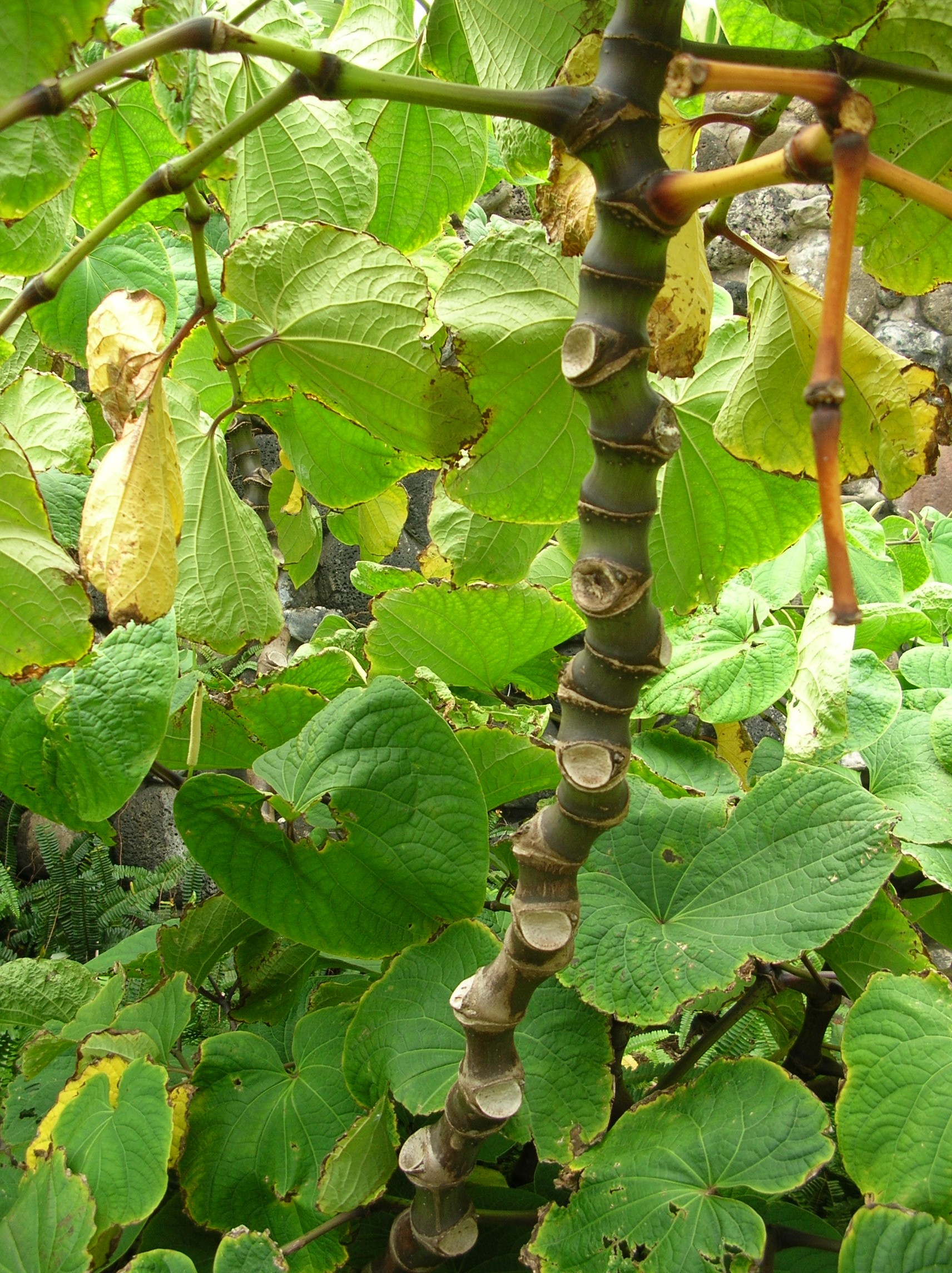 Piper methysticum (stem). Location: Maui, Maui Nui Botanical Garden